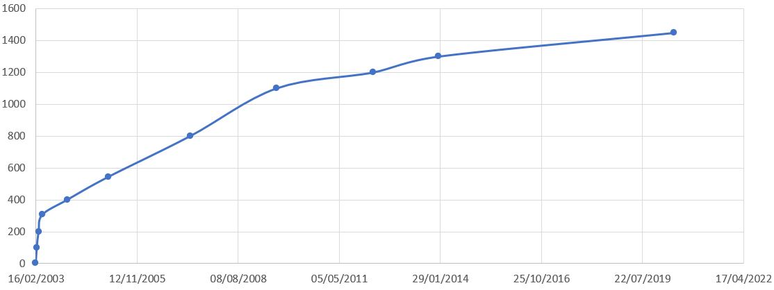 This is a graph made form the following press releases of the Project Steve: And from the Geotimes article